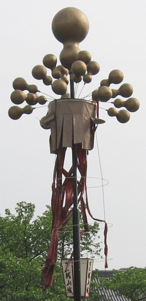 Uma-jirushi.